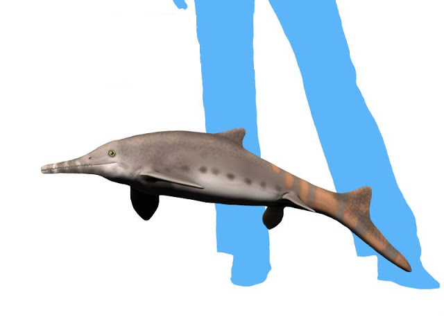 Life restoration of Barracudasauroides panxiensis